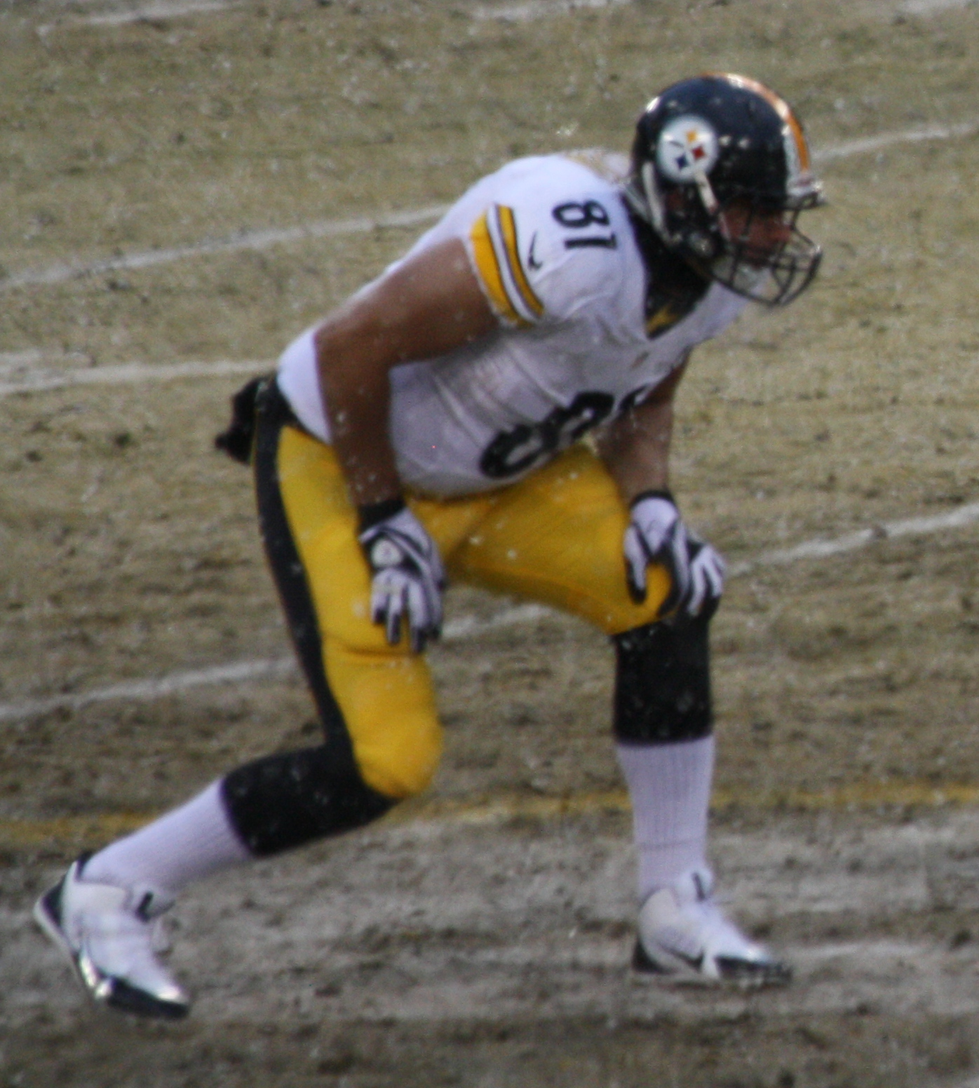 Pittsburgh Steelers blocker David Paulson prepared to block for a punter.